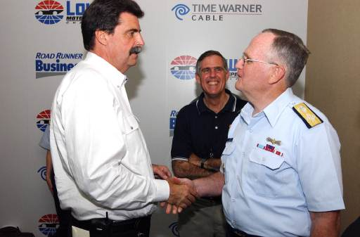 Description: CHARLOTTE, N.C. (May 28, 2005) Adm. Thomas Collins presents NASCAR President Mike Helton a commandant coin prior to the Carquest 300 NASCAR race at Lowe's Motor Speedway. Slug 050528-C-4512L-141 (FR) Location CHARLOTTE, North Carolina United States Special 050528-C-4512L-141 (FR) Photographer PA1 BARRY LANE Object Name COAST GUARD NASCAR (FOR RELEASE) Credit US COAST GUARD DIGITAL Server Name cgvi.uscg.mil:80 PLS ImageID 246394 Picture Desk ImageID 05A4A Committed Yes (Platter 6B) Database Photo